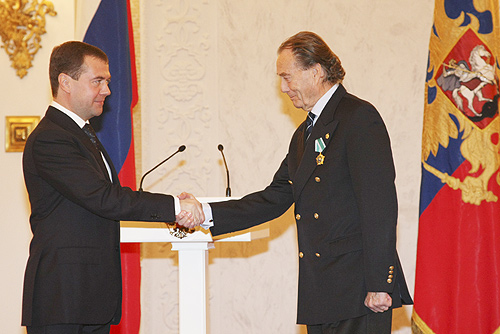 THE KREMLIN, MOSCOW. National Unity Day Reception. President of the Russian music society in France Pyotr Sheremetev was awarded the Order of Friendship.